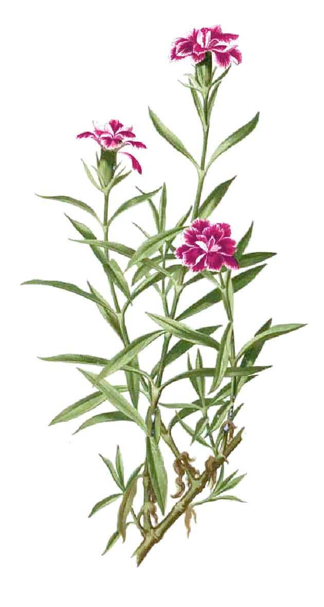 Plate from book